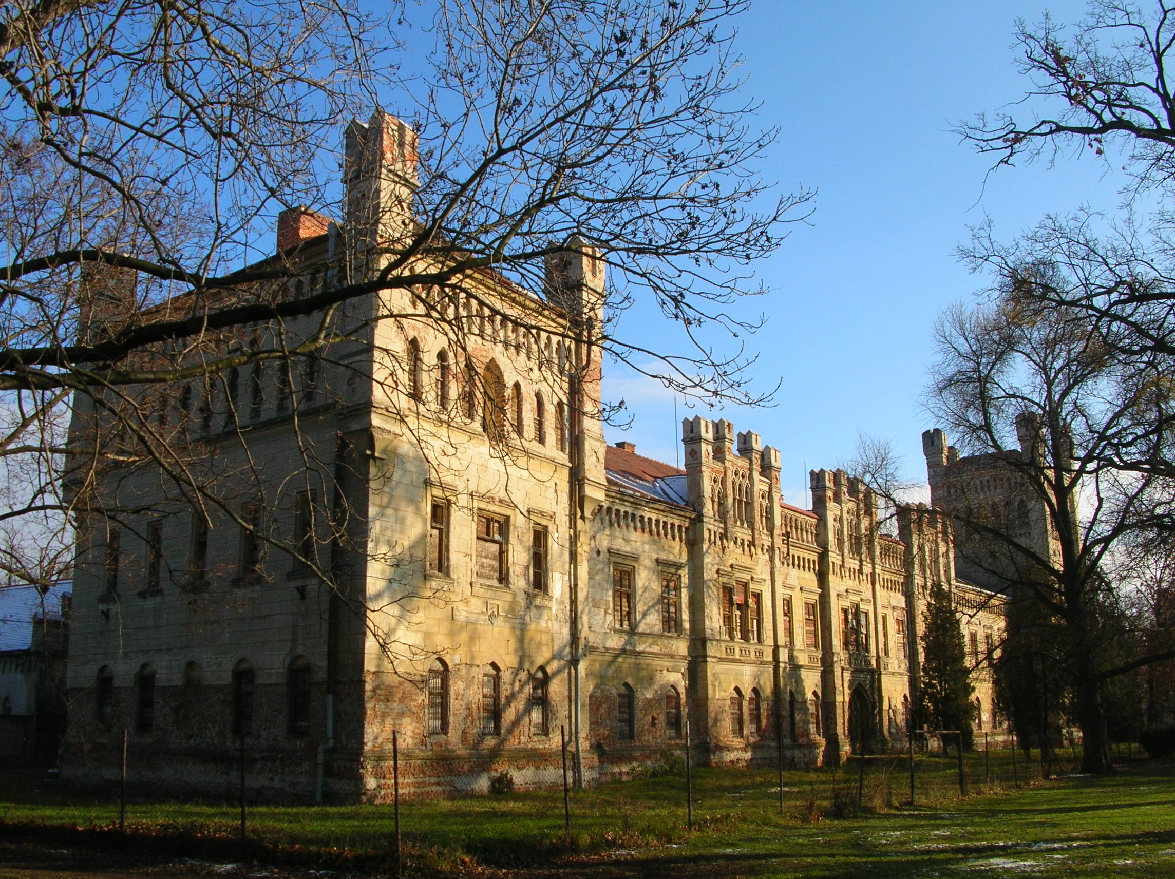 Esterházy of Galanta Castle